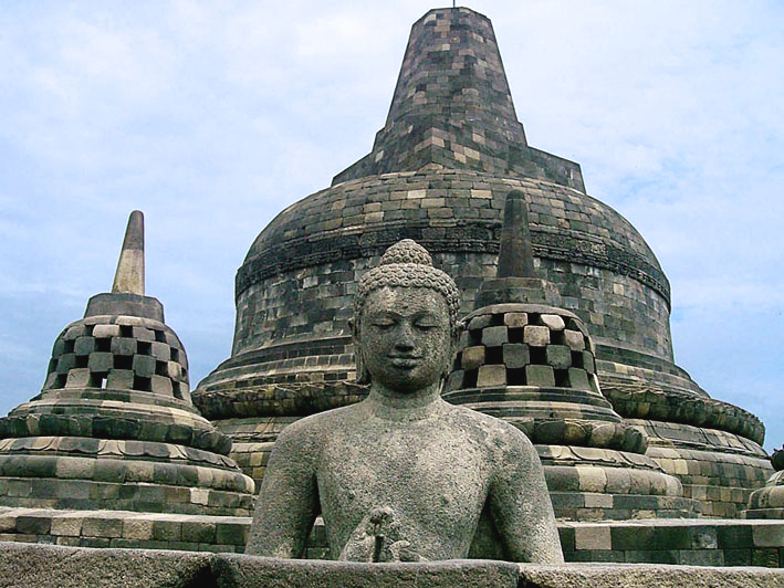 The main Stupa crowning the Borobudur Buddhist monument in Java, Indonesia. The largest Buddhist monument in the world, it was built in the 8th century by the Sailendra dynasty. The upper rounded terrace with rows of bell shaped stupas containing Buddha images symbolize Arupadhatu, the sphere of formlesness. The main stupa itself is empty, symbolizing complete perfection of enlightenment.